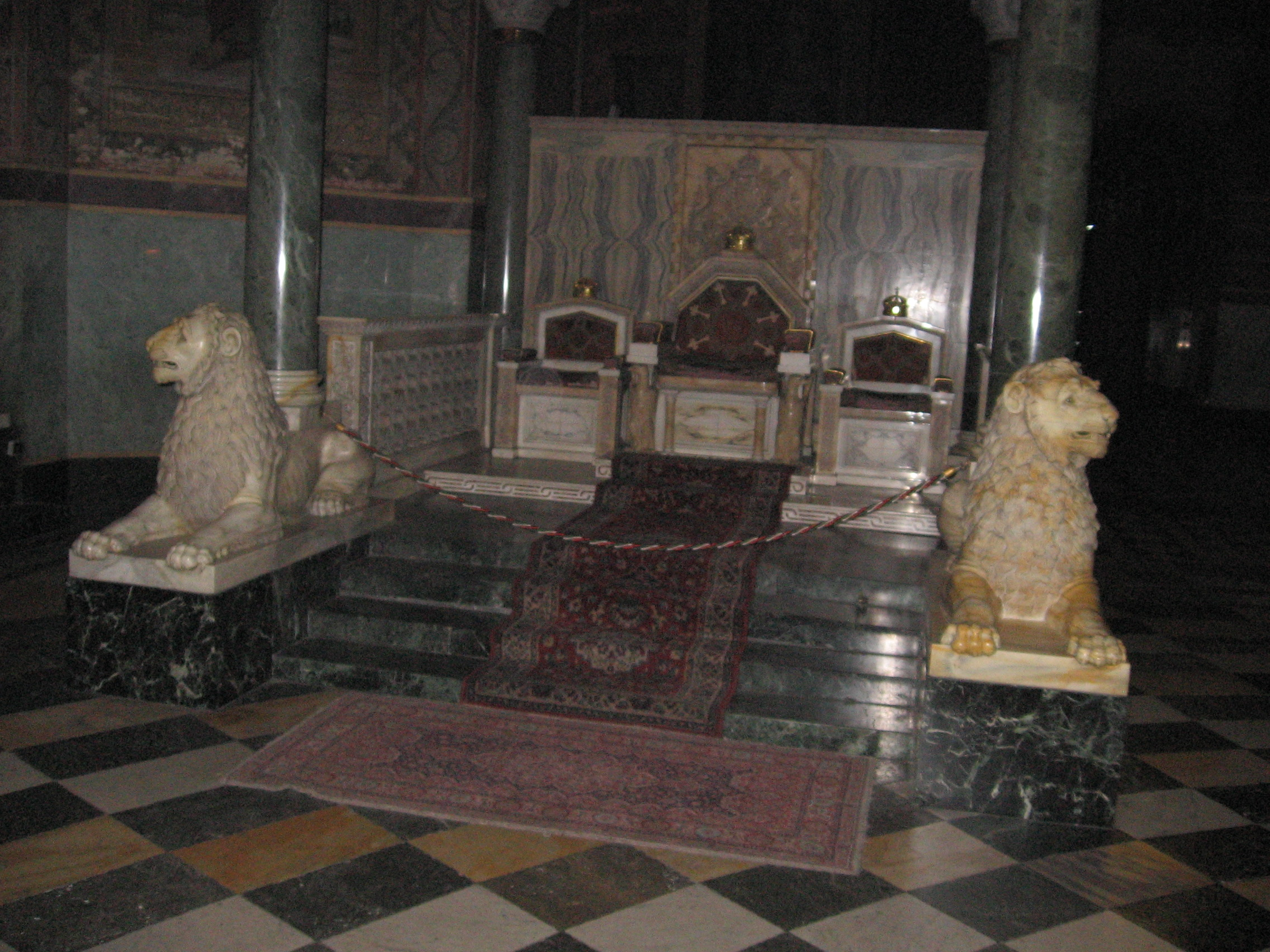 Inside Alexander Nevsky Cathedral